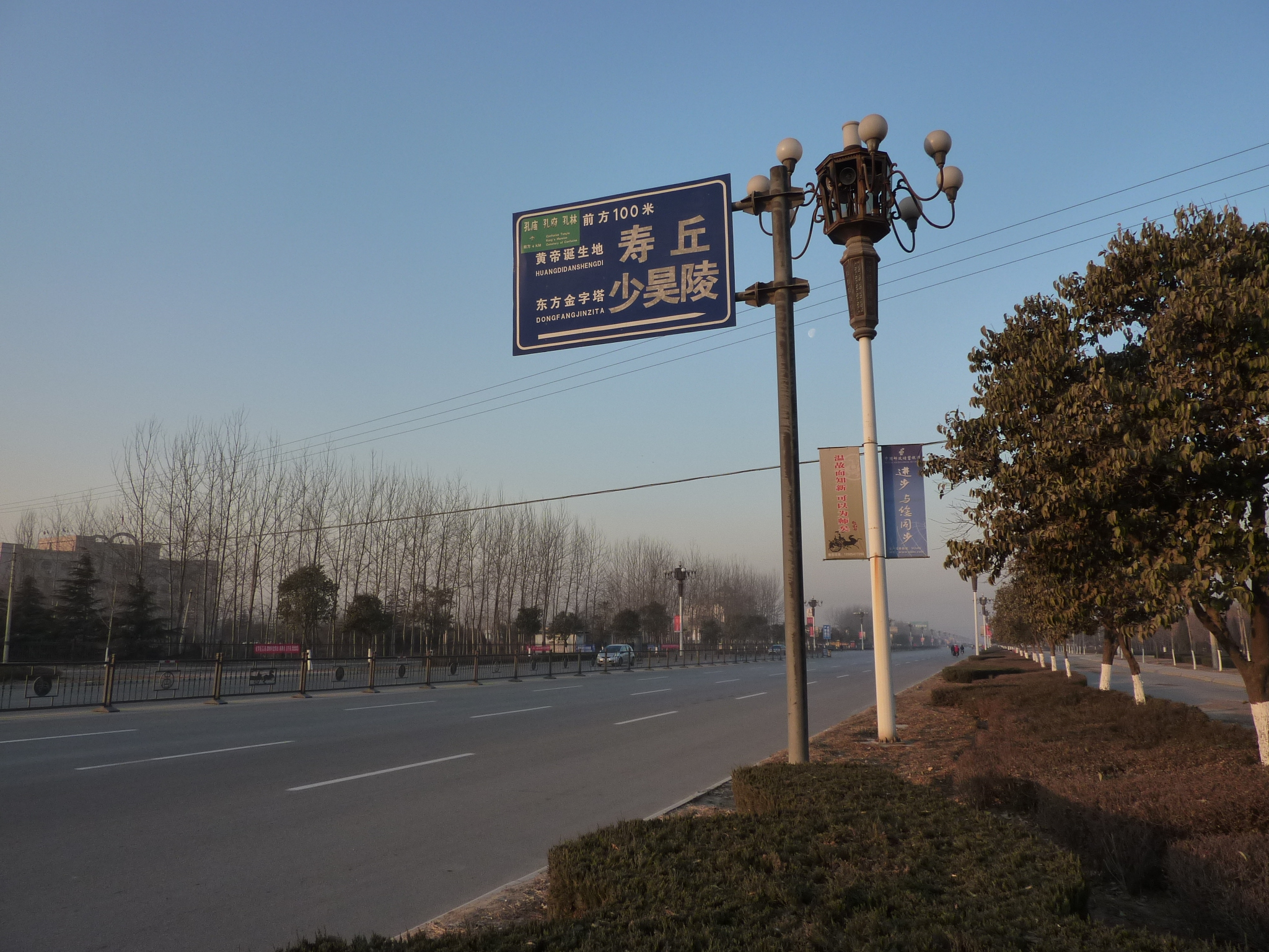 National Hwy 327 (Jingxuan East Rd) on Qufu's east side. This is 100 m to the east of the turnoff to Shaohao Tomb and Qiu Shou. Looking west.